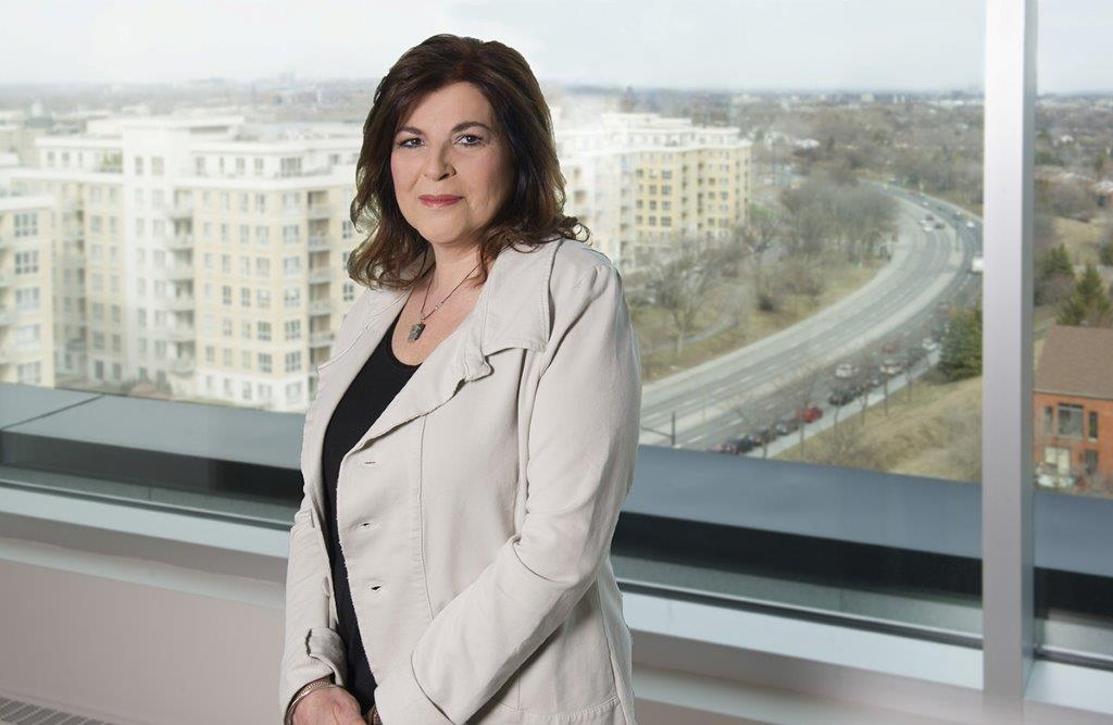 Diane Lemieux_Commission de la construction du Québec